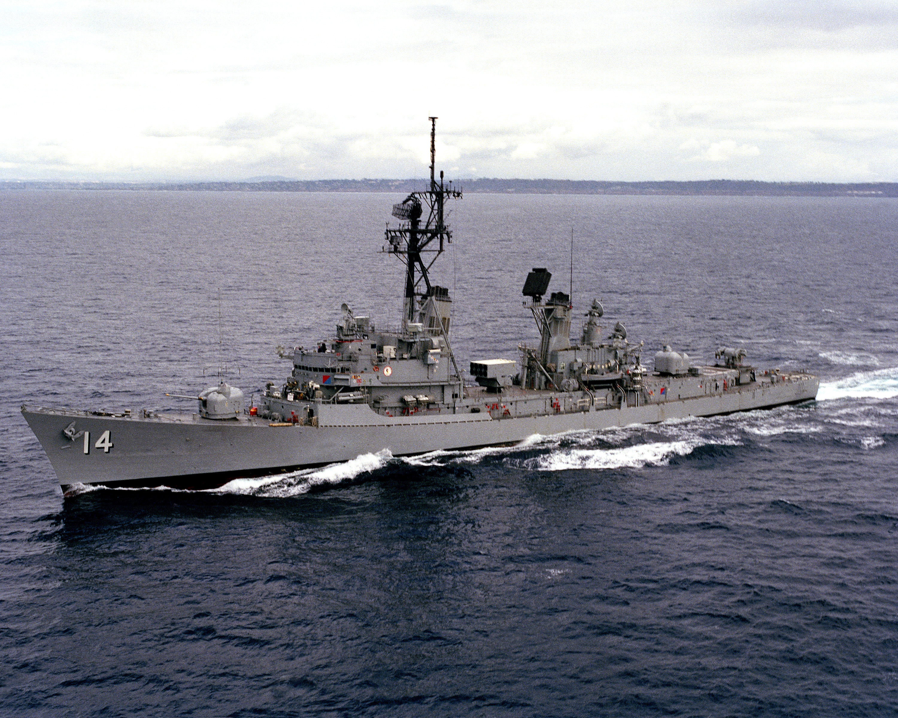 The U.S. Navy guided missile destroyer USS Buchanan (DDG-14) underway off the coast of Southern California (USA).